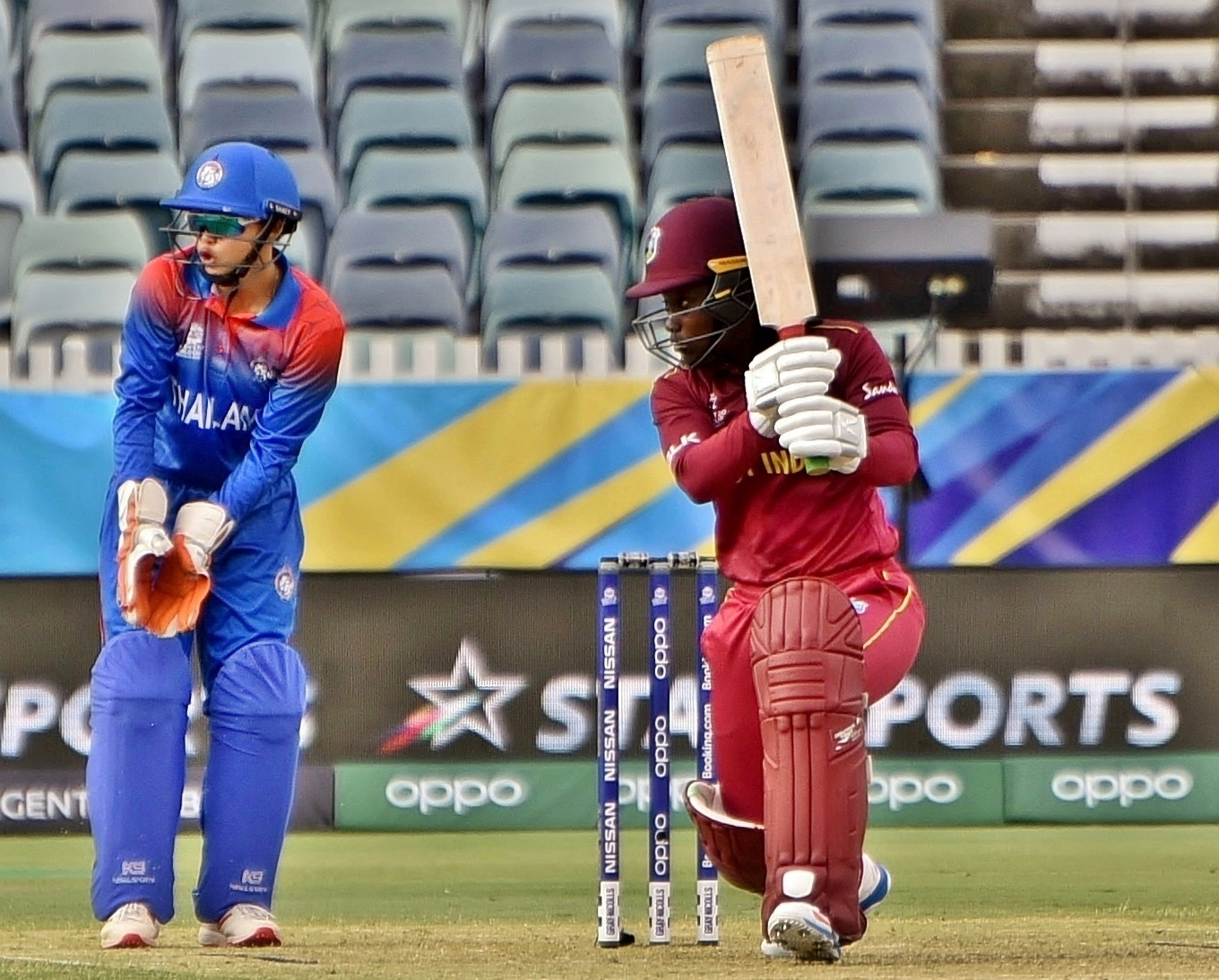 Deandra Dottin batting for the West Indies against Thailand during their 2020 ICC Women's T20 World Cup match at the WACA Ground in Perth, Australia. The wicket-keeper is Nannapat Koncharoenkai.